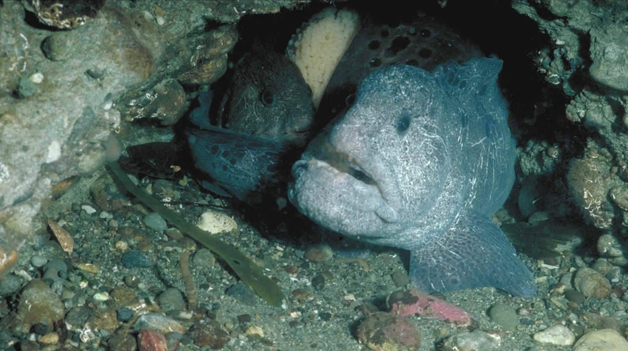 Wolf Eel